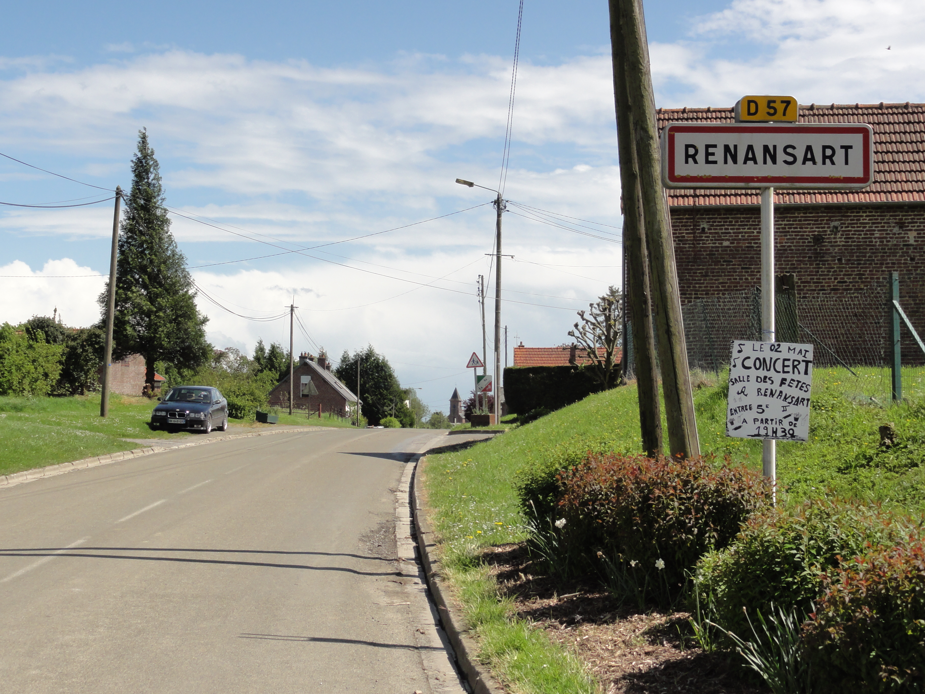 Renansart (Aisne) city limit sign